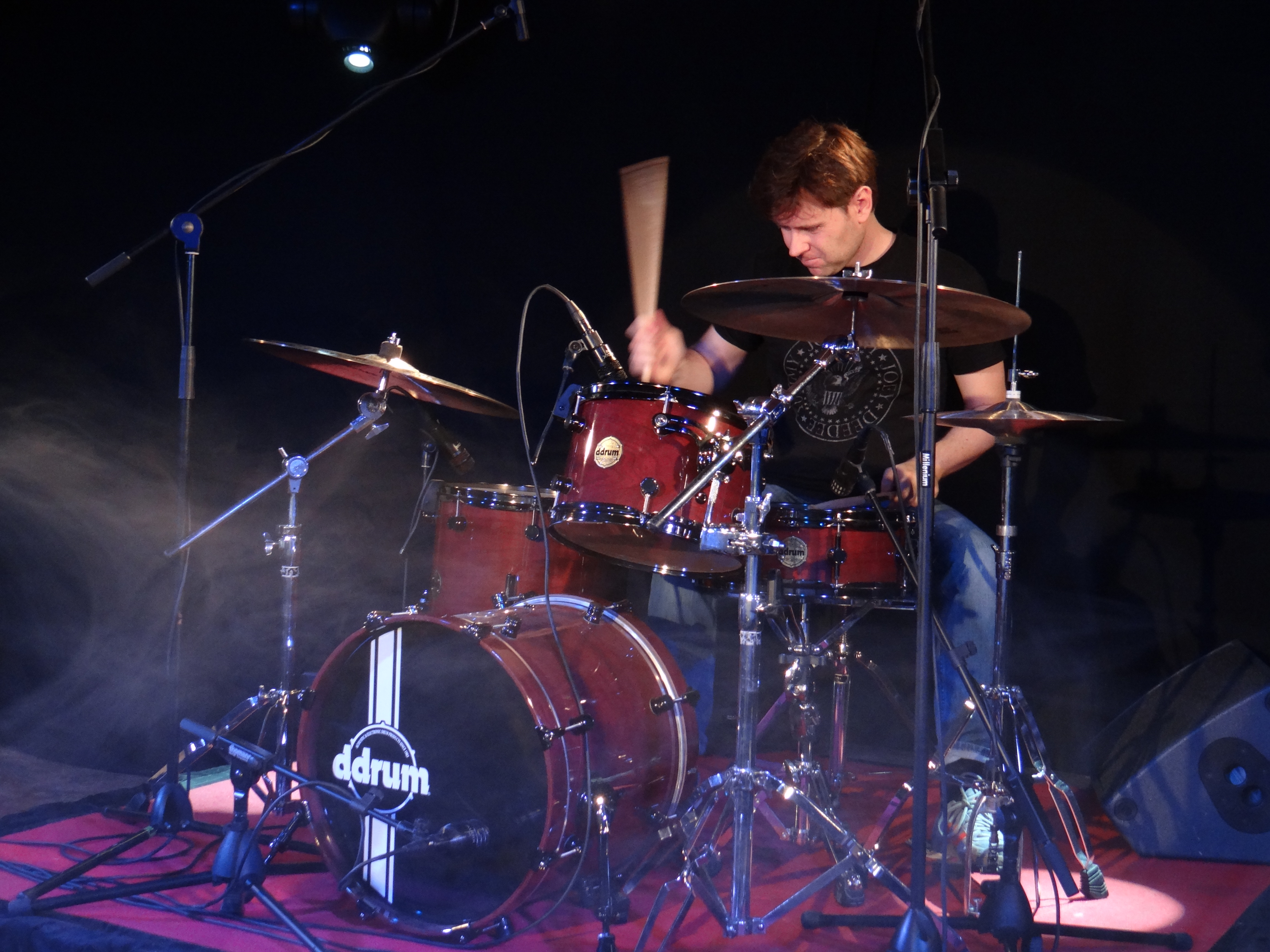 Stephan Ebn during a show in December 2013